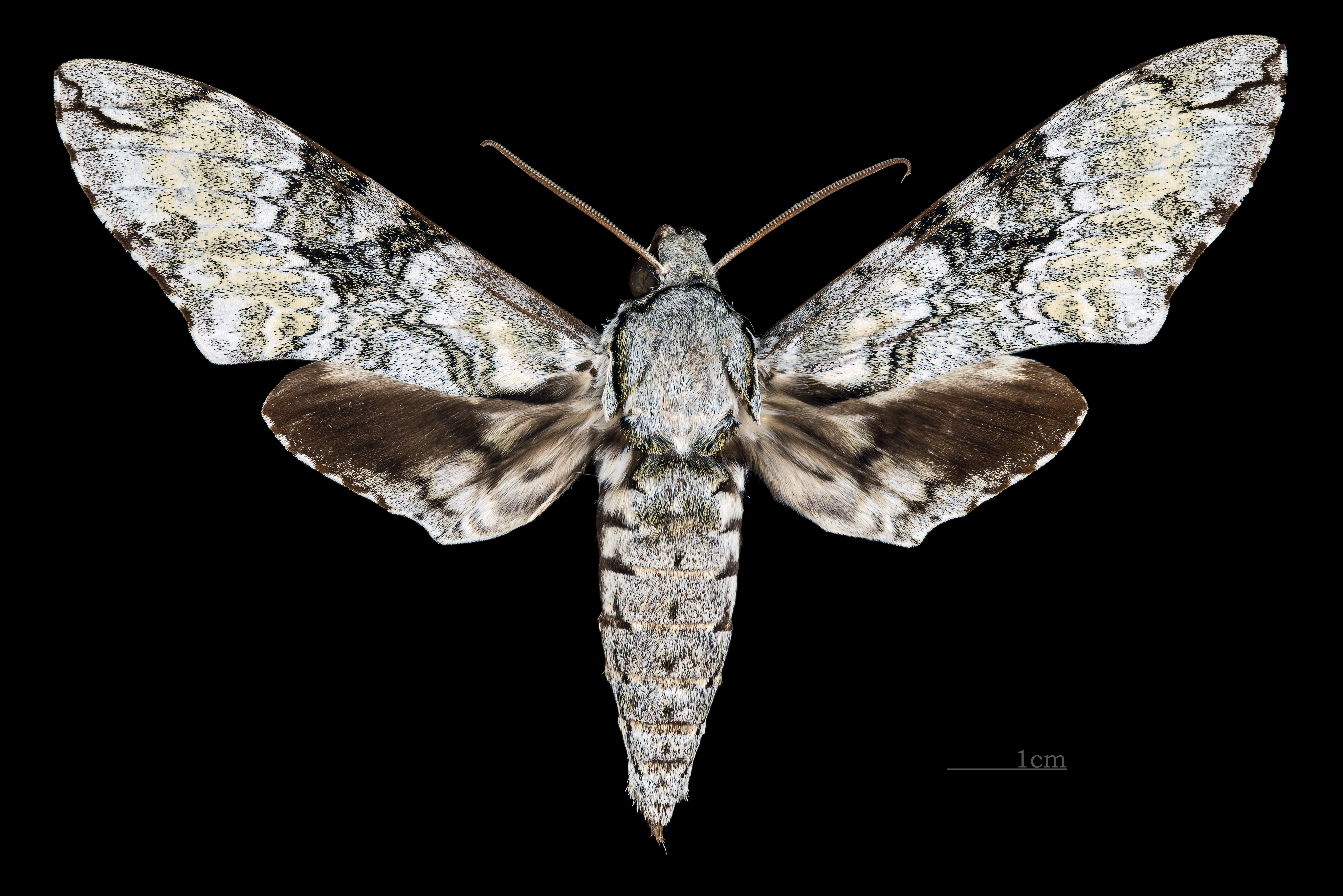 Manduca vestalis - Dorsal side Collection of the Mathematician Laurent Schwartz